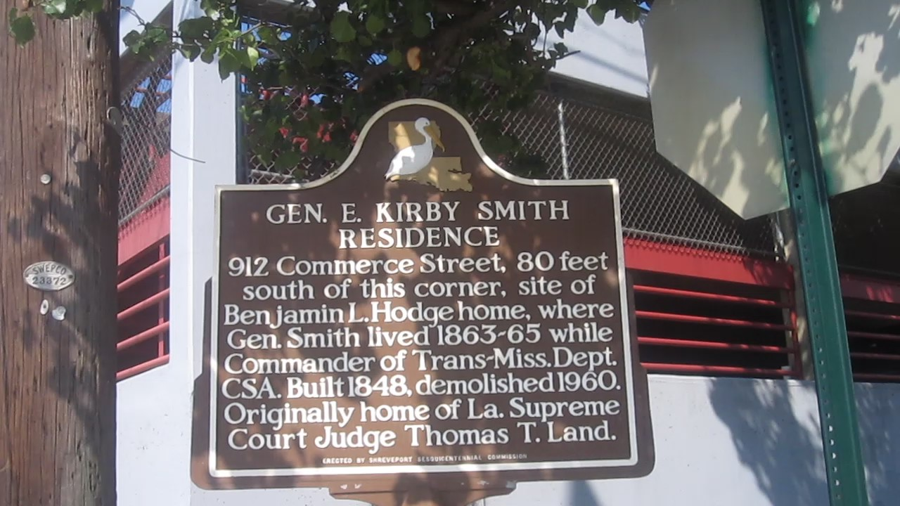 Kirby Smith sign in Shreveport